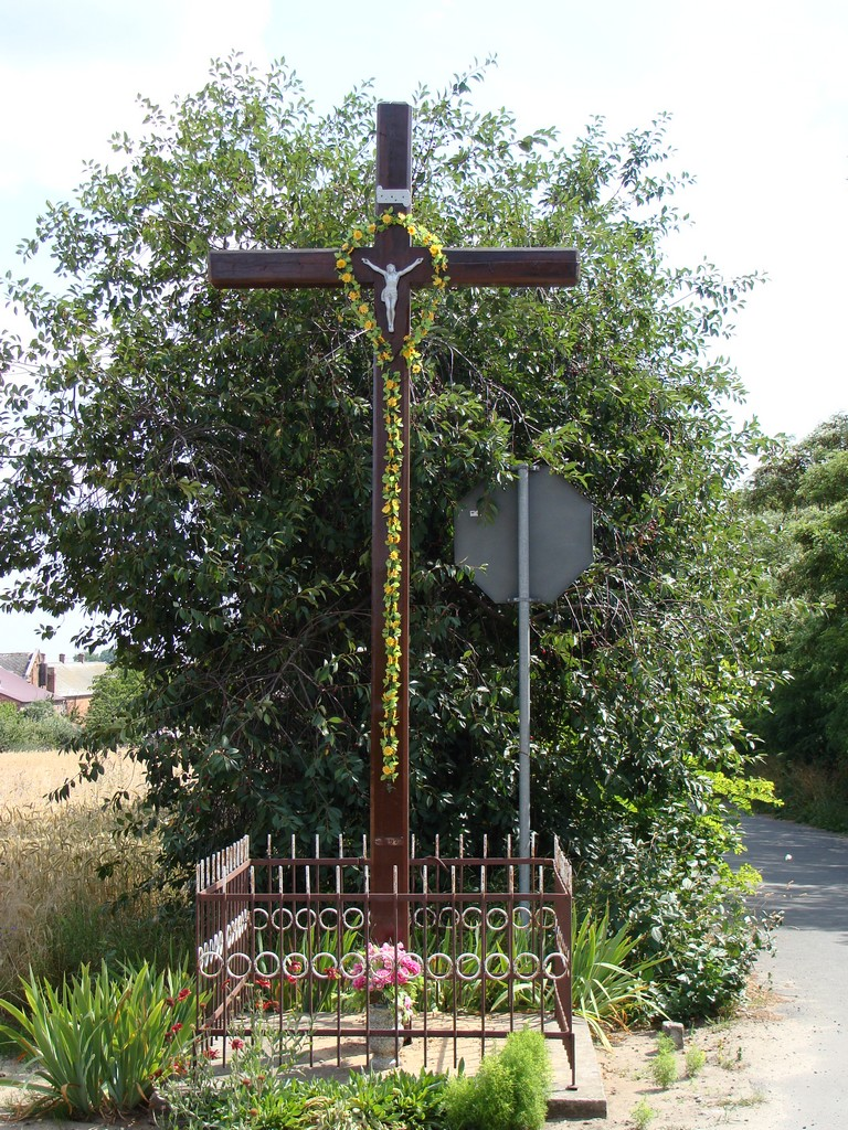 Gawrony, roadside shrine.